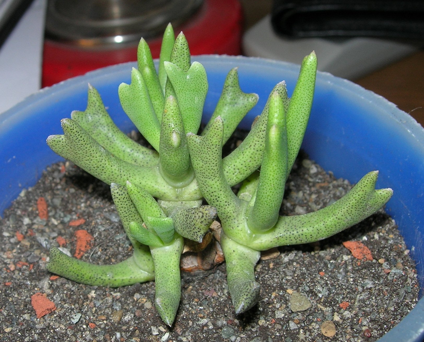 Rhombophyllum dolabriforme (plant collection of Ivan I. Boldyrev, Berdsk, Russia)